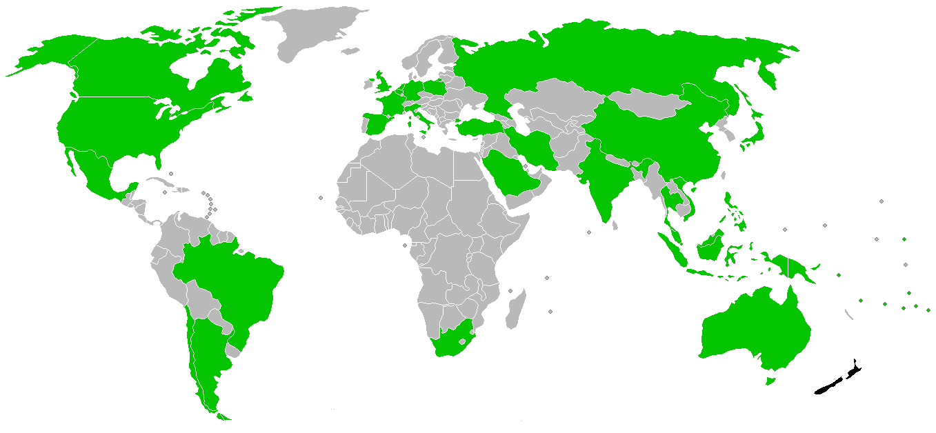 map of the world showing countries in which New Zealand had embassies in 2005